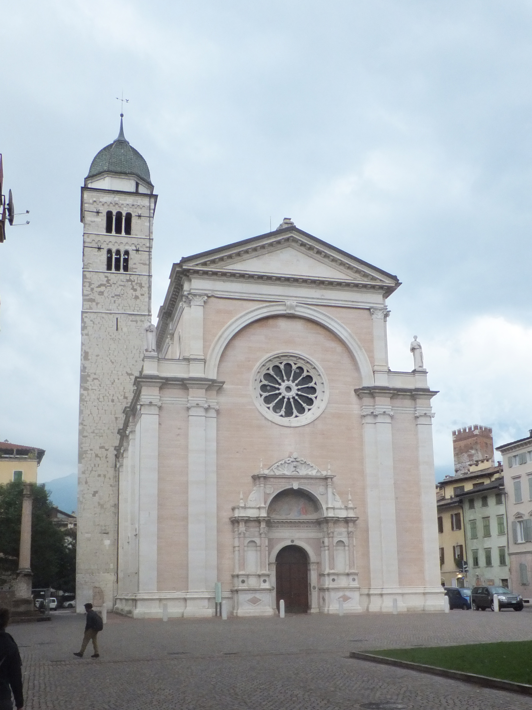 Trento, Italy - Church of Santa Maria Maggiore